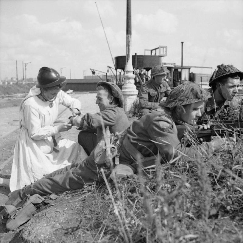 The British Army in North-west Europe 1944-45 A nurse working with the Belgian resistance bandages a minor wound for a British soldier in Antwerp, 11 September 1944.